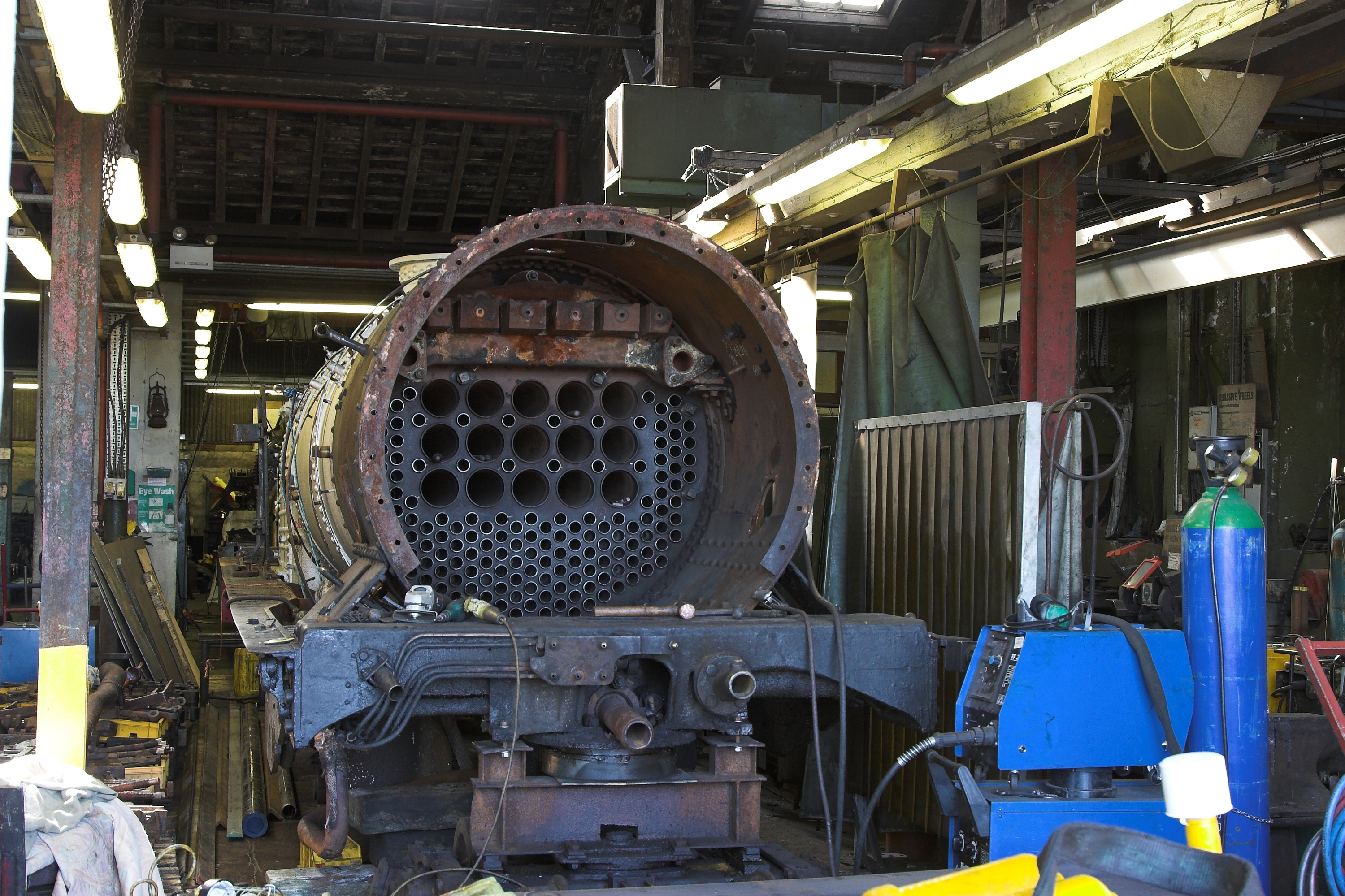 View inside an NGG16 boiler's smokebox. The superheater tubes of the upper part are removed.